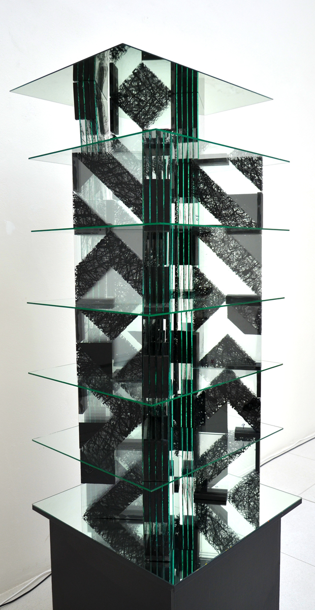 Jiřina Žertová, Babylon (L), 150x60x50 cm, 2012